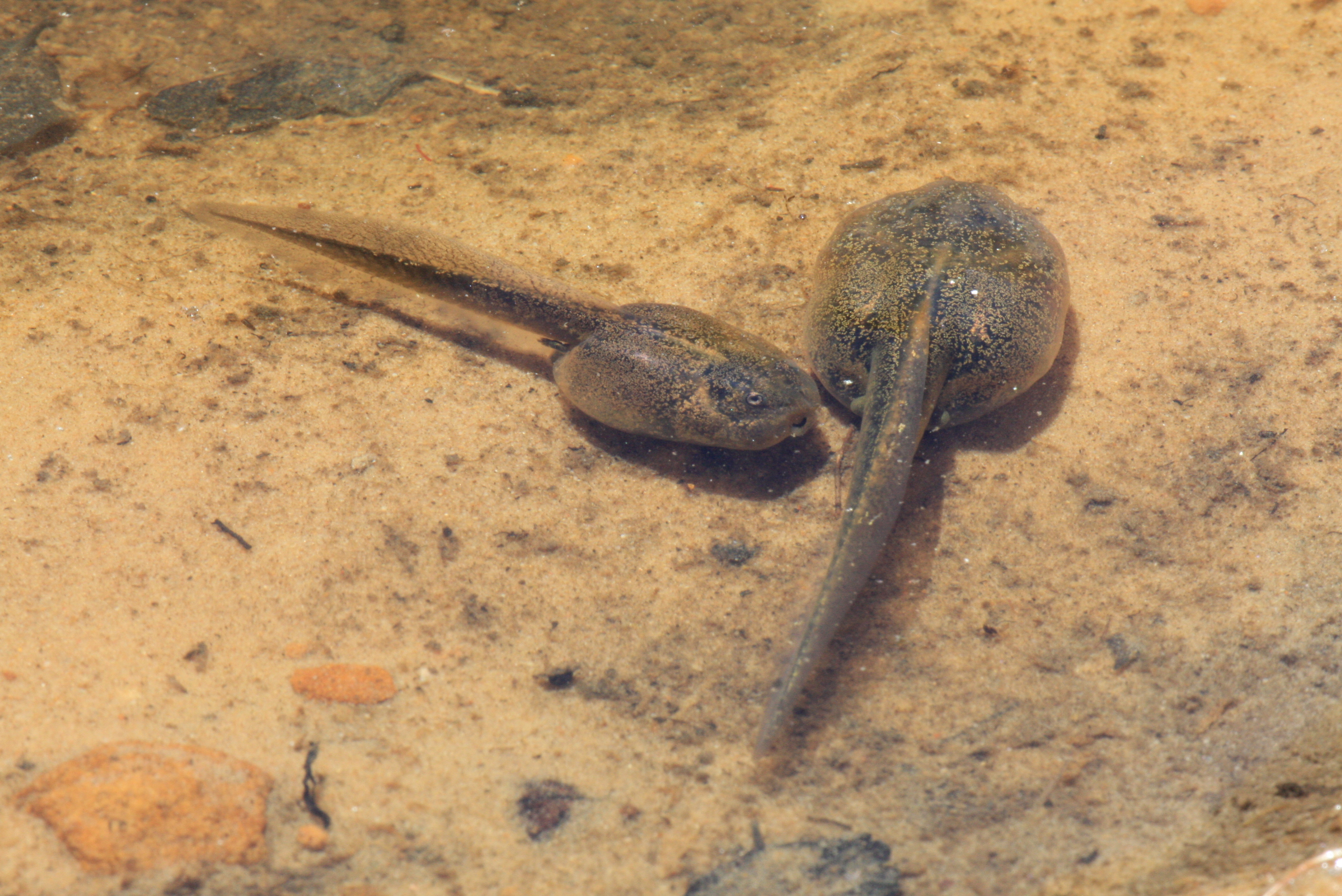 Two tadpoles swimming perpendicular to each other in a pond of year-round water in the waterpocket tanks, Capitol Gorge Pioneer Trail, Capitol Reef National Park, Utah, USA.